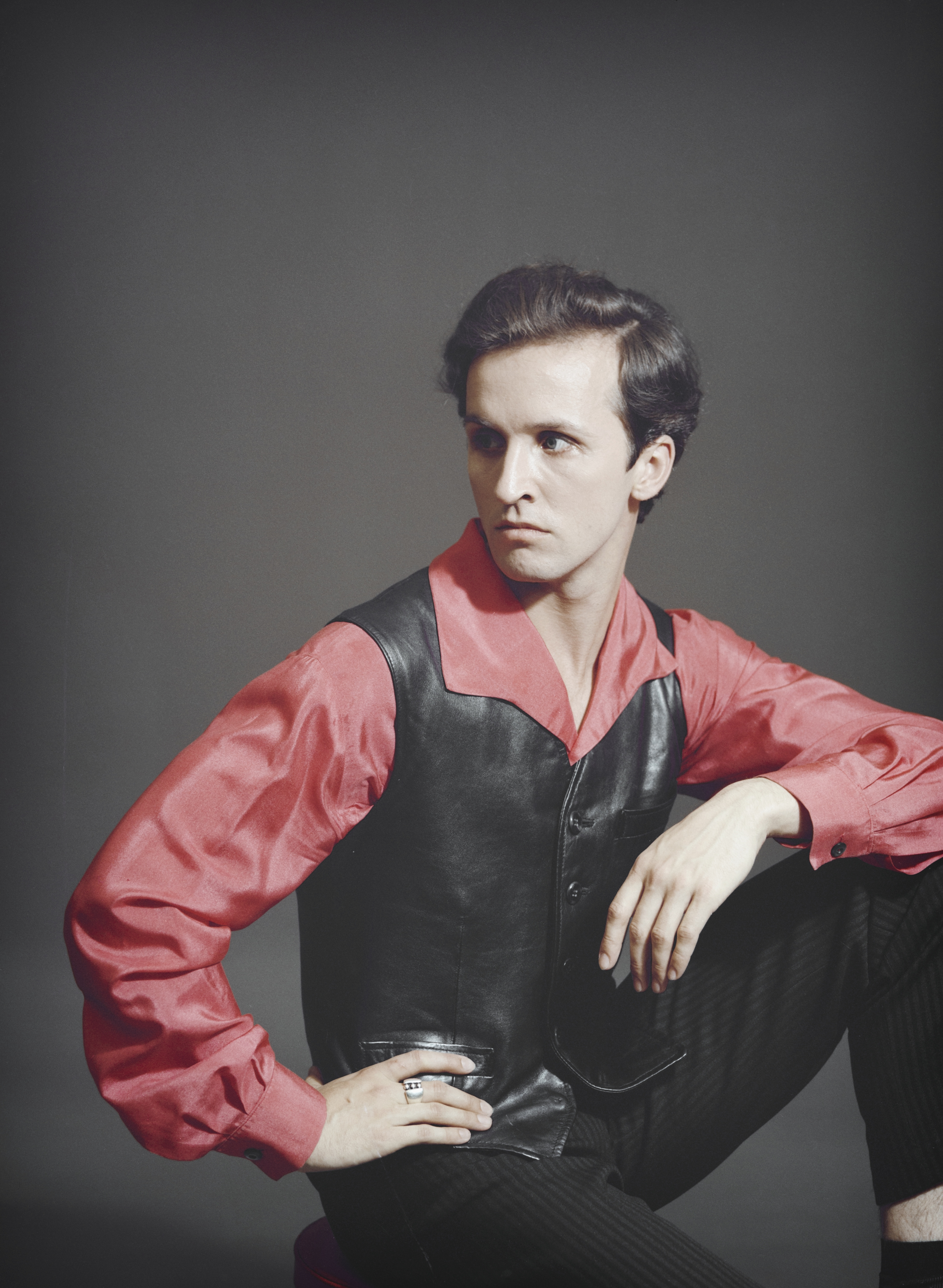 Photograph of the Finnish dancer, actor and painter Fred Negendanck (1937–2017).